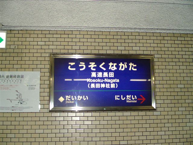 Station signboard of Kobe Rapid Transit Kosoku-Nagata Station